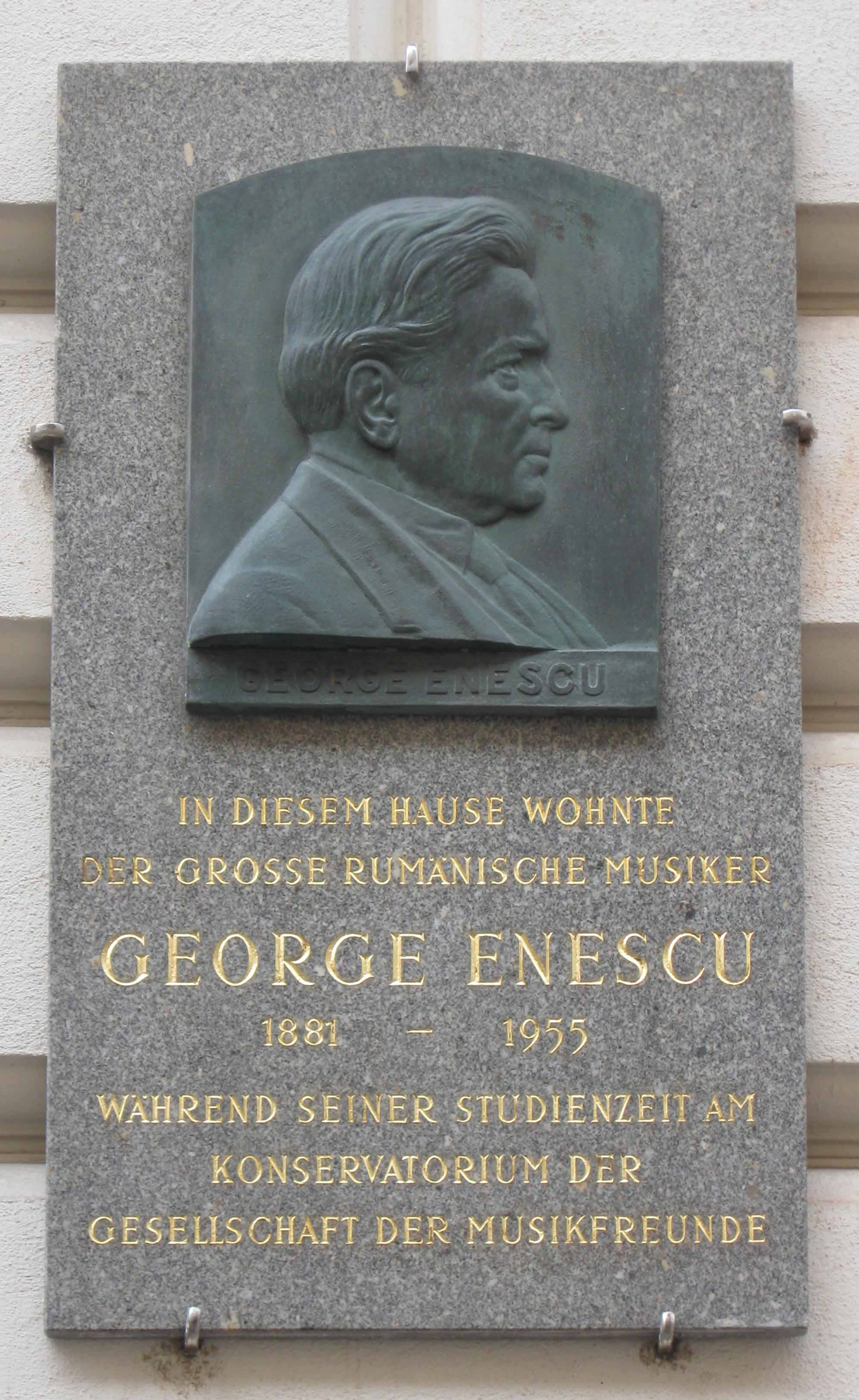 George Enescu, memorial plaque at his residence during his duration of study, Vienna, Frankenberggasse 6 (entrance: Apfelgasse 6)